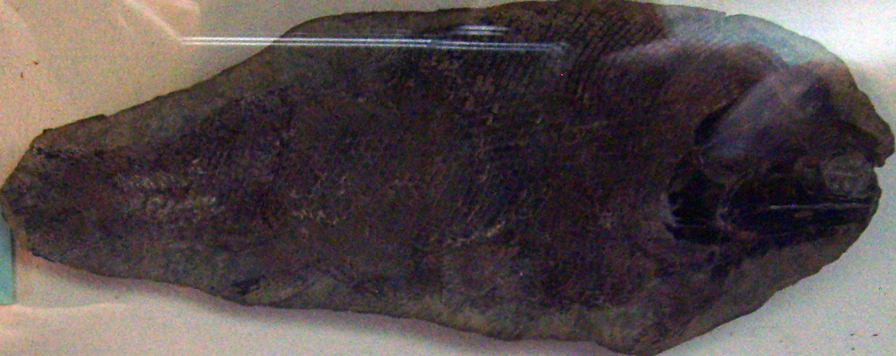 Pteronisculus fossil at the Geological Museum, Copenhagen.